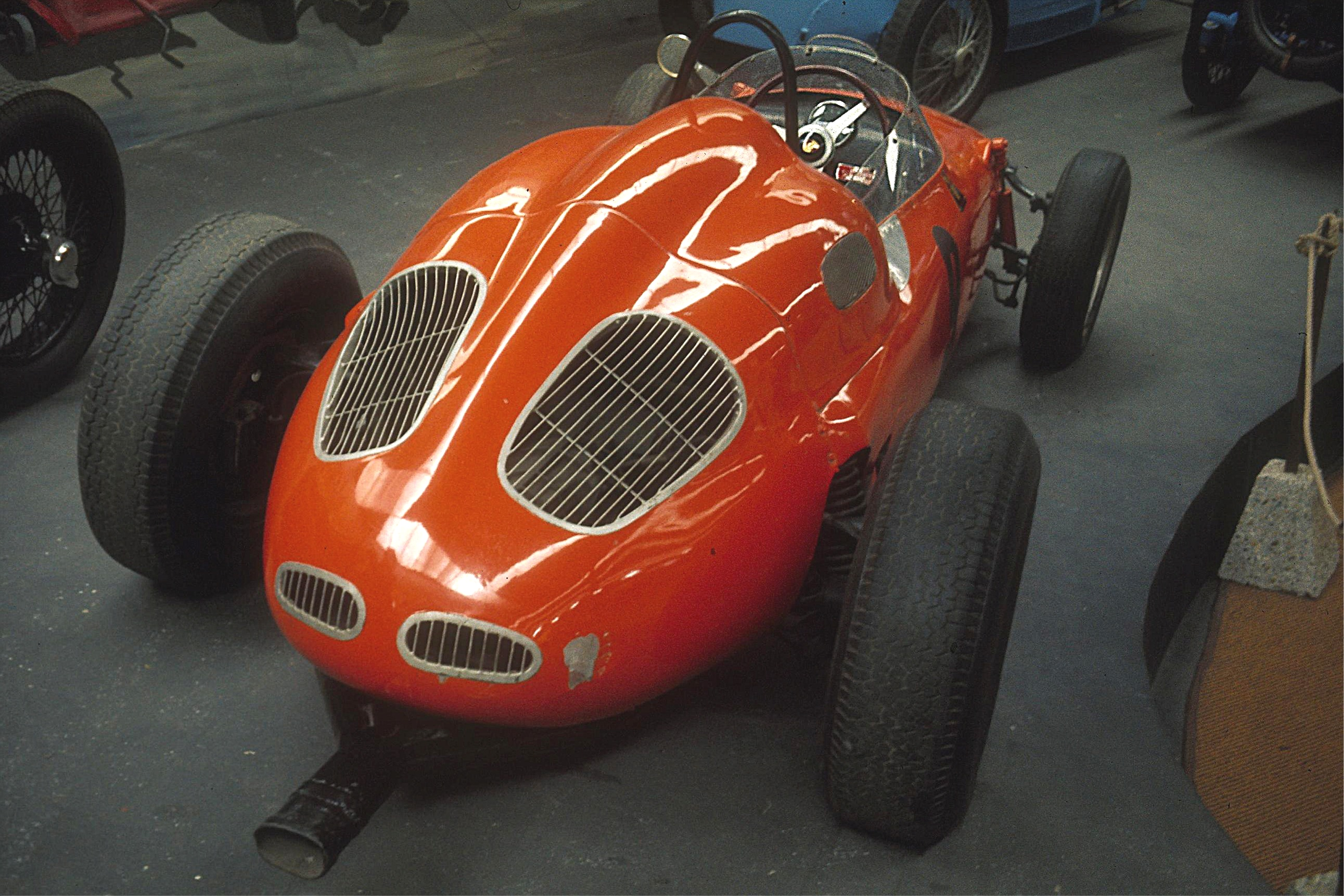 Porsche 718 Formel 2 (since 1961 used in Formel 1) in Het Nationaal Automobielmuseum, Leidschendam, Holland.